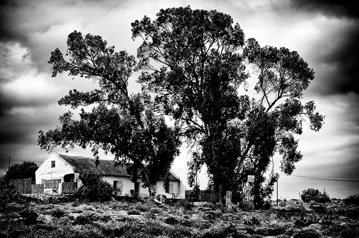 Although not formally declared as a PHS at time of writing, Council of Heritage Western Cape has agreed to the declaration of portions 18-36 Verlorenvlei 8 as a Provincial Heritage Site. Formal gazetting is expected soon. The Verlorenvlei settlement is regarded as a unique remnant of a particular way of life with a distinctive architectural style which has developed from the first permanent buildings which were erected in the late 18th Century.The settlement has architectural, archaeological, historic and ecological significance and is a declared RAMSAR site. Overall the social-cultural significance of the settlement makes it a priceless piece of Africana. This media shows a South African Protected Site with SAHRA file reference NEW.